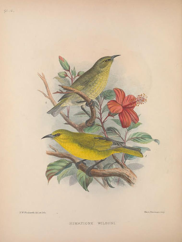 Himatione wilsoni from The Birds of the Sandwich Islands Himatione wilsoni (= Chlorodrepanis virens[1]) = Chlorodrepanis virens wilsoni[2]